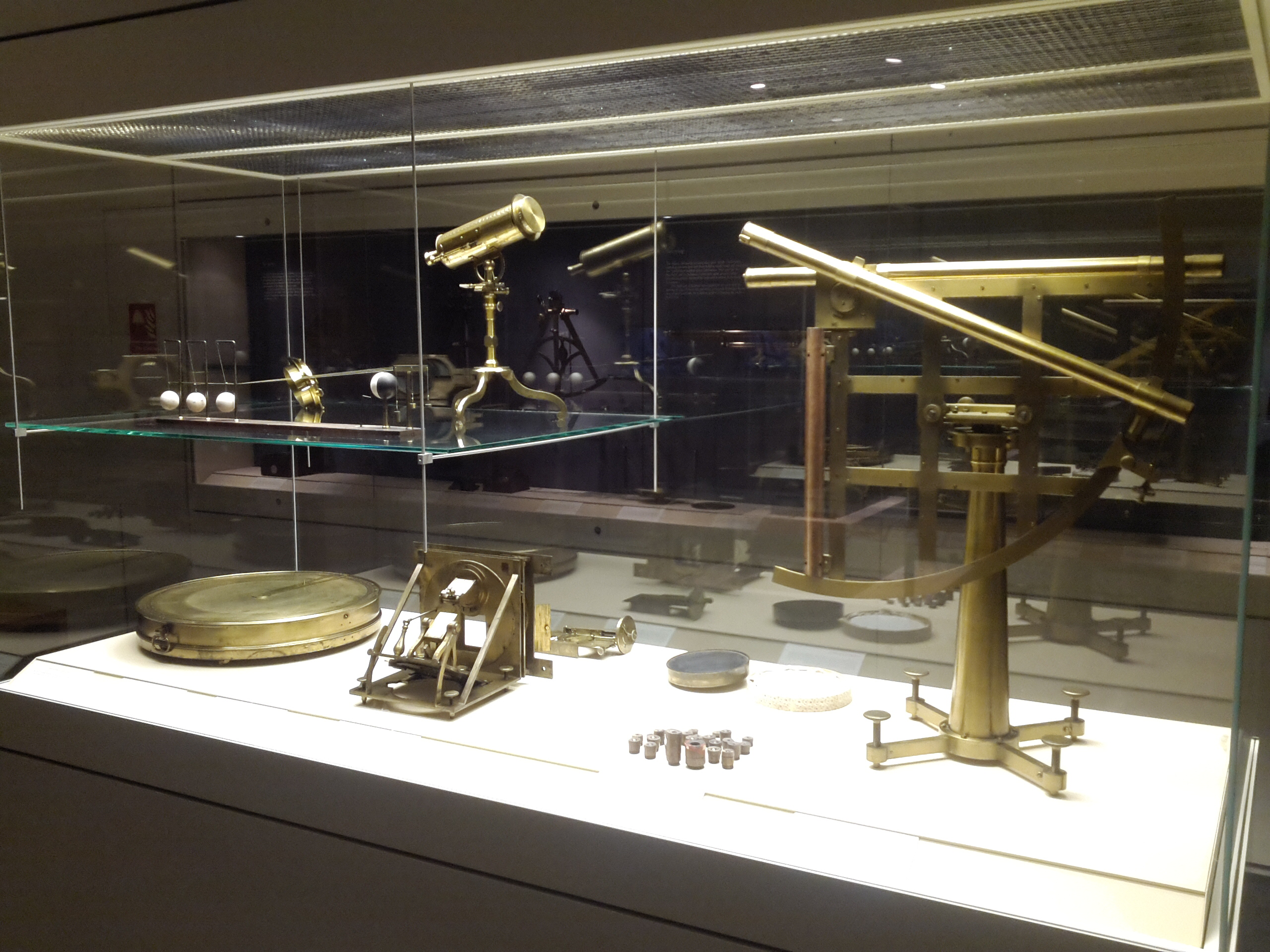 A display cabinet at The Science Museum, Science in the 18th Century - the King George III collection. It includes a quadrant, Sir William Herschel's telescope eyepieces, a he lost at, a tidal motion model, a planisphere, a split object-glass micrometer, a reflecting microscope, a micrometer and Sir William Herschel's mirrors.